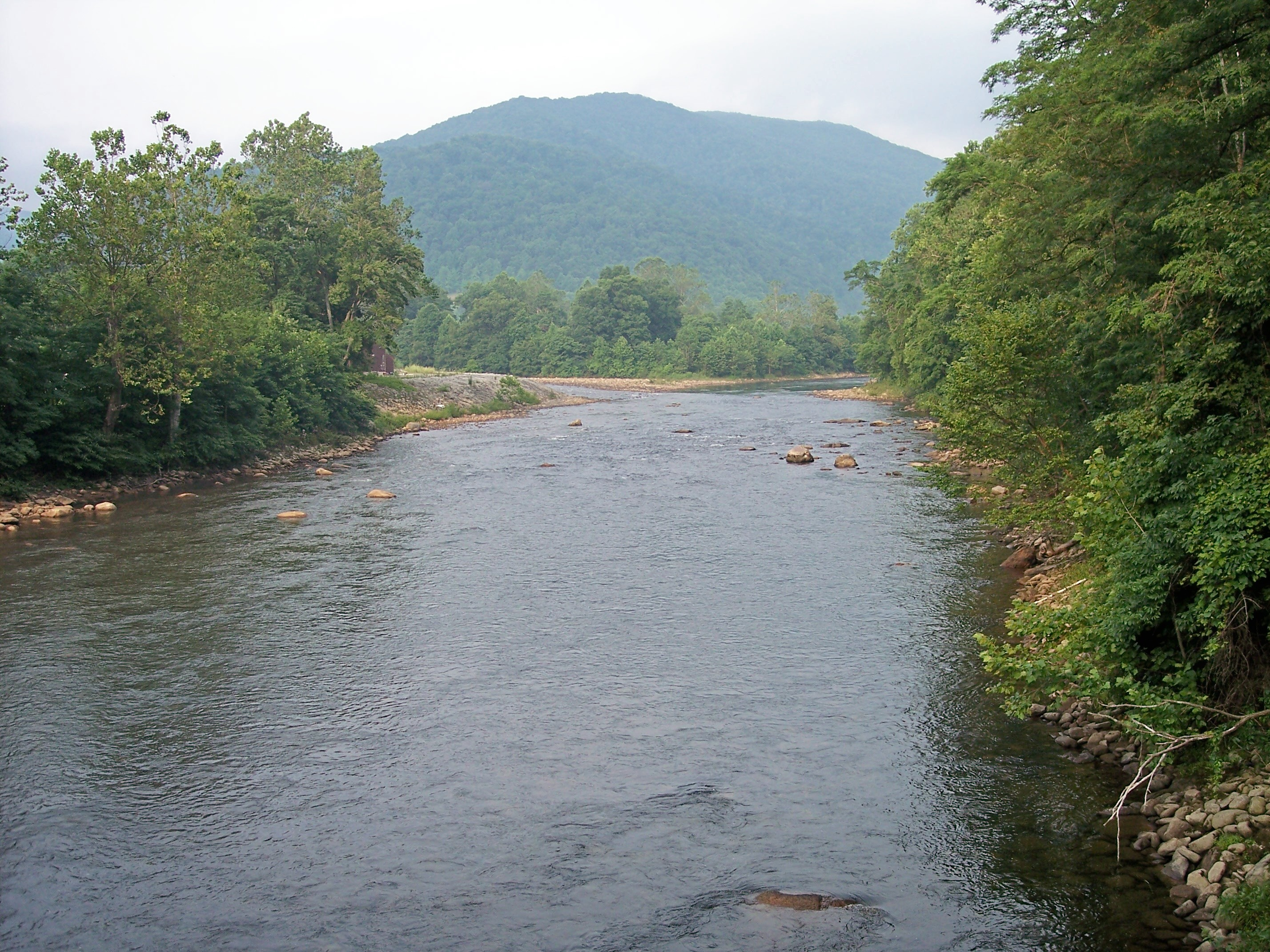 An upstream view of the Black Fork at Hendricks, West Virginia. The confluence of the Blackwater River (left) and the Dry Fork (right) (which join to form the Black Fork) can be seen in the distance.